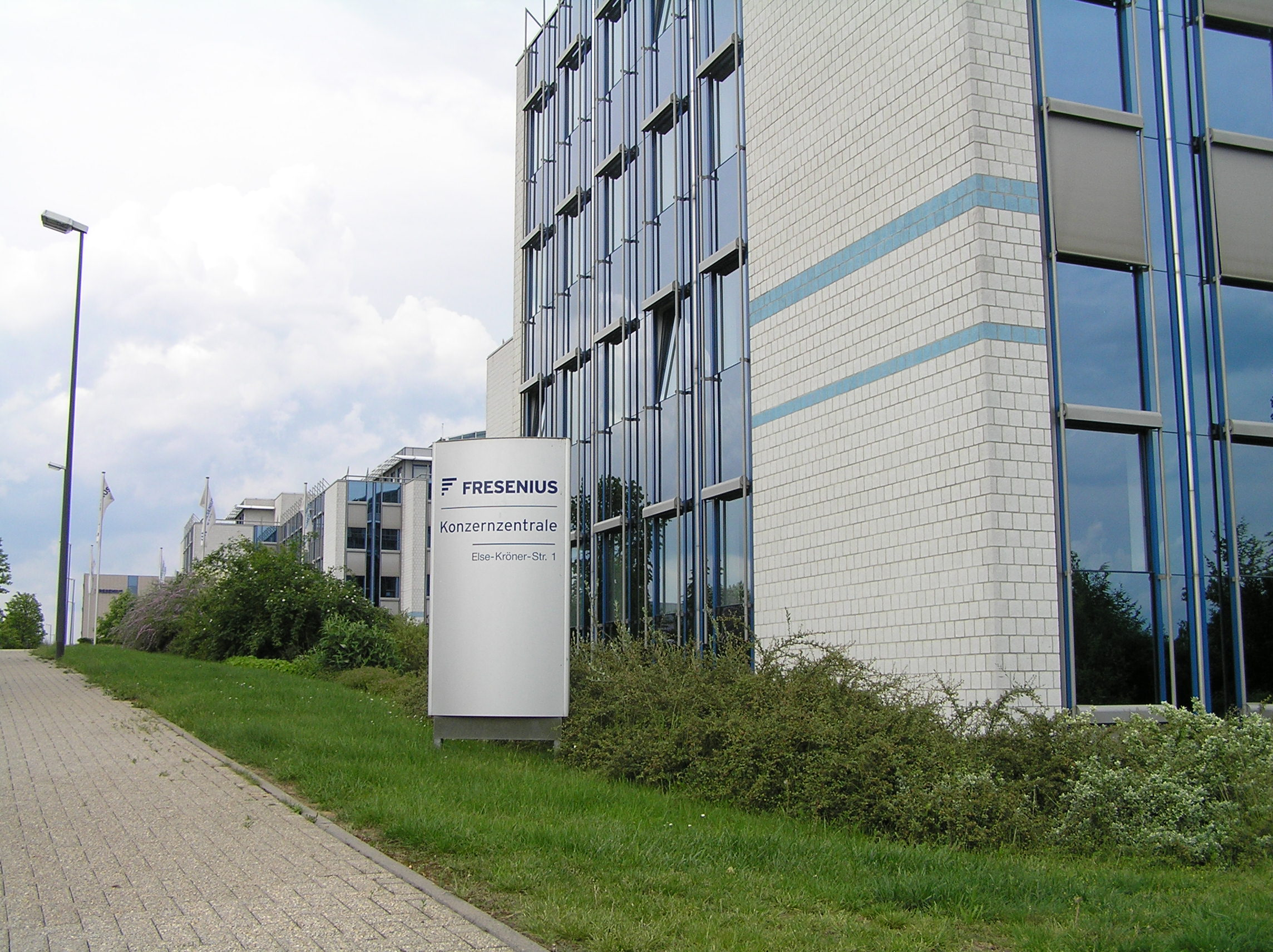 Headquarter of Fresenius SE in Bad Homburg vor der Höhe, Hesse, Germany